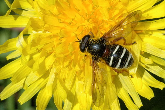 Picture taken in Commanster, Belgian High Ardennes . Species: Sericomyia lappona